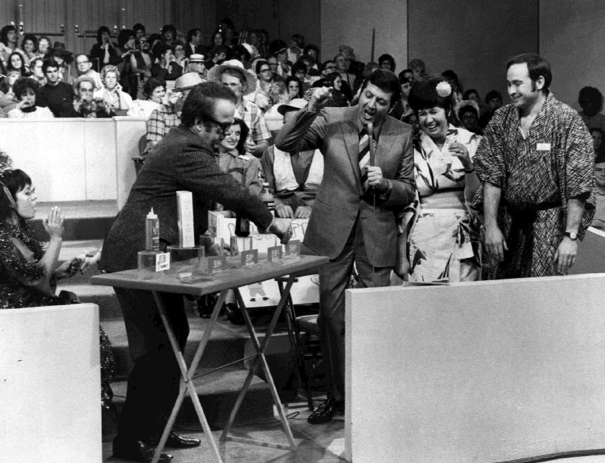 Publicity photo from the television show Let's Make a Deal. Pictured are host Monty Hall and announcer Jay Stewart with contestants.